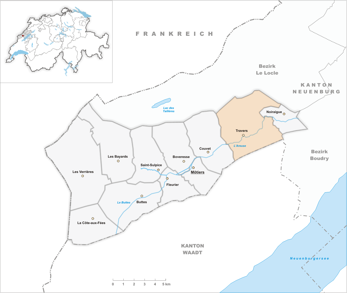 Municipality Travers